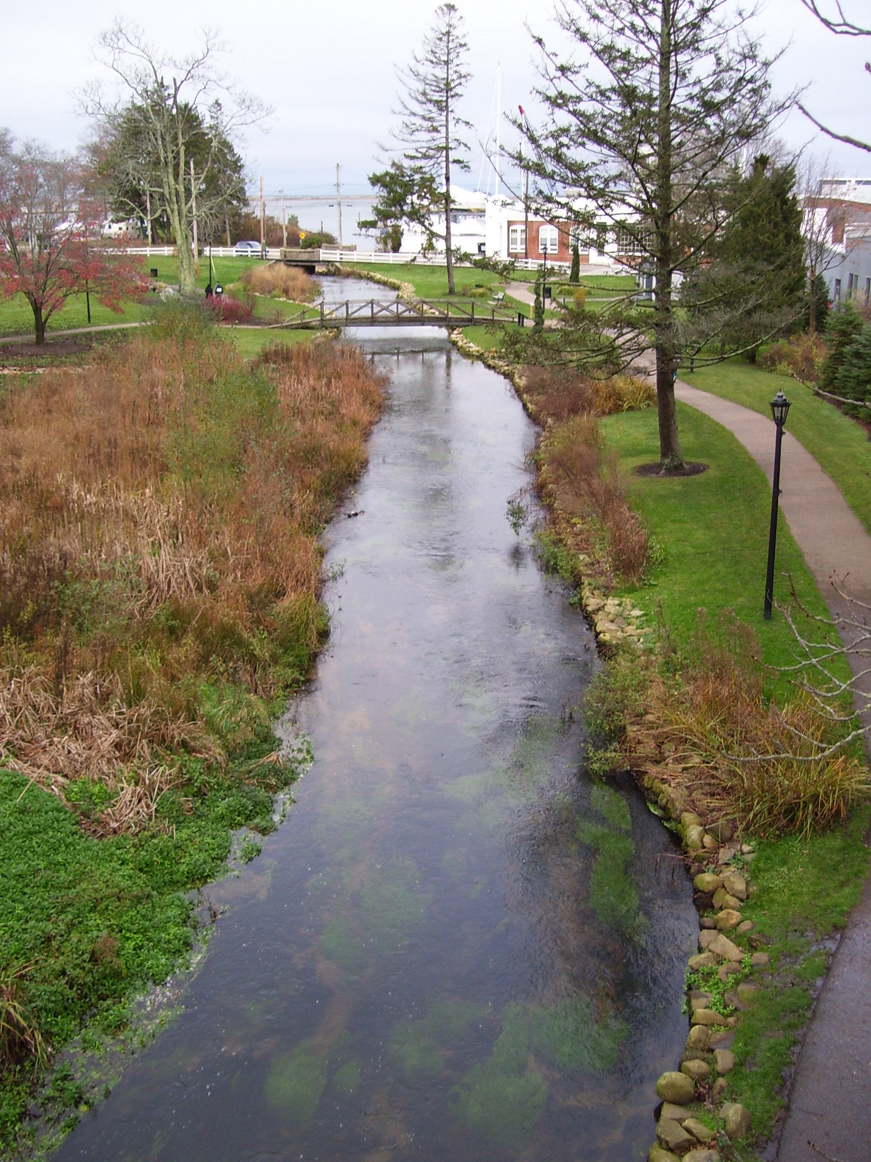 My 2009 photo of the Town Brook in Plymouth, Massachusetts.